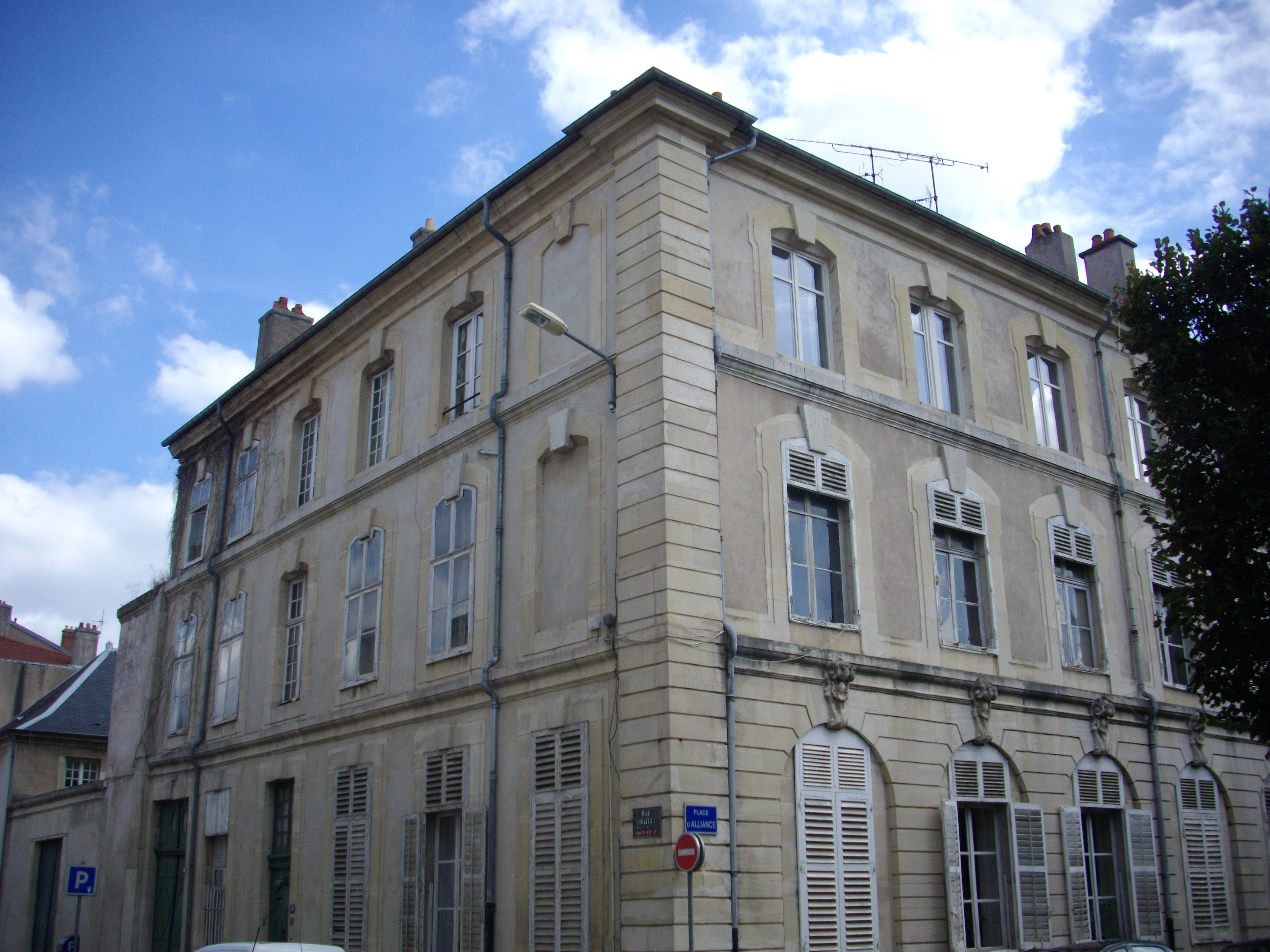 Buildig at the corner of Lyautey street and Alliance square in Nancy (Meurthe-et-Moselle, France) .